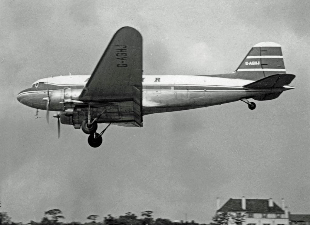 Douglas C-47A (DC-3) G-AGHJ of Autair at Manchester Airport in 1962